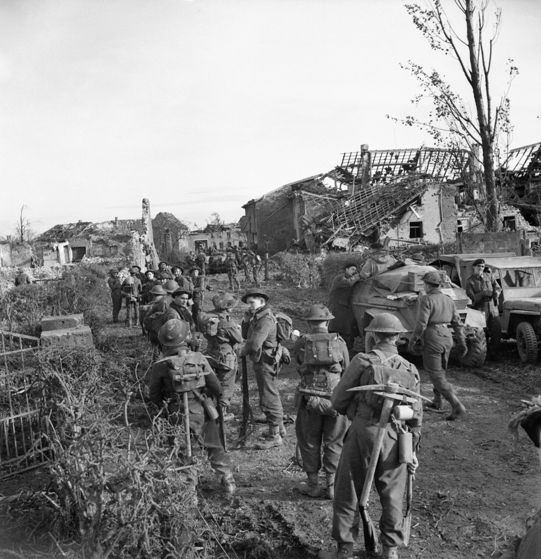 Troops of the 7th Somerset Light Infantry, 43rd (Wessex) Division resting during the assault on Geilenkirchen in Germany, 18 November 1944. Troops of the 7th Somerset Light Infantry, 43rd (Wessex) Division resting during the assault on Geilenkirchen in Germany, 18 November 1944.